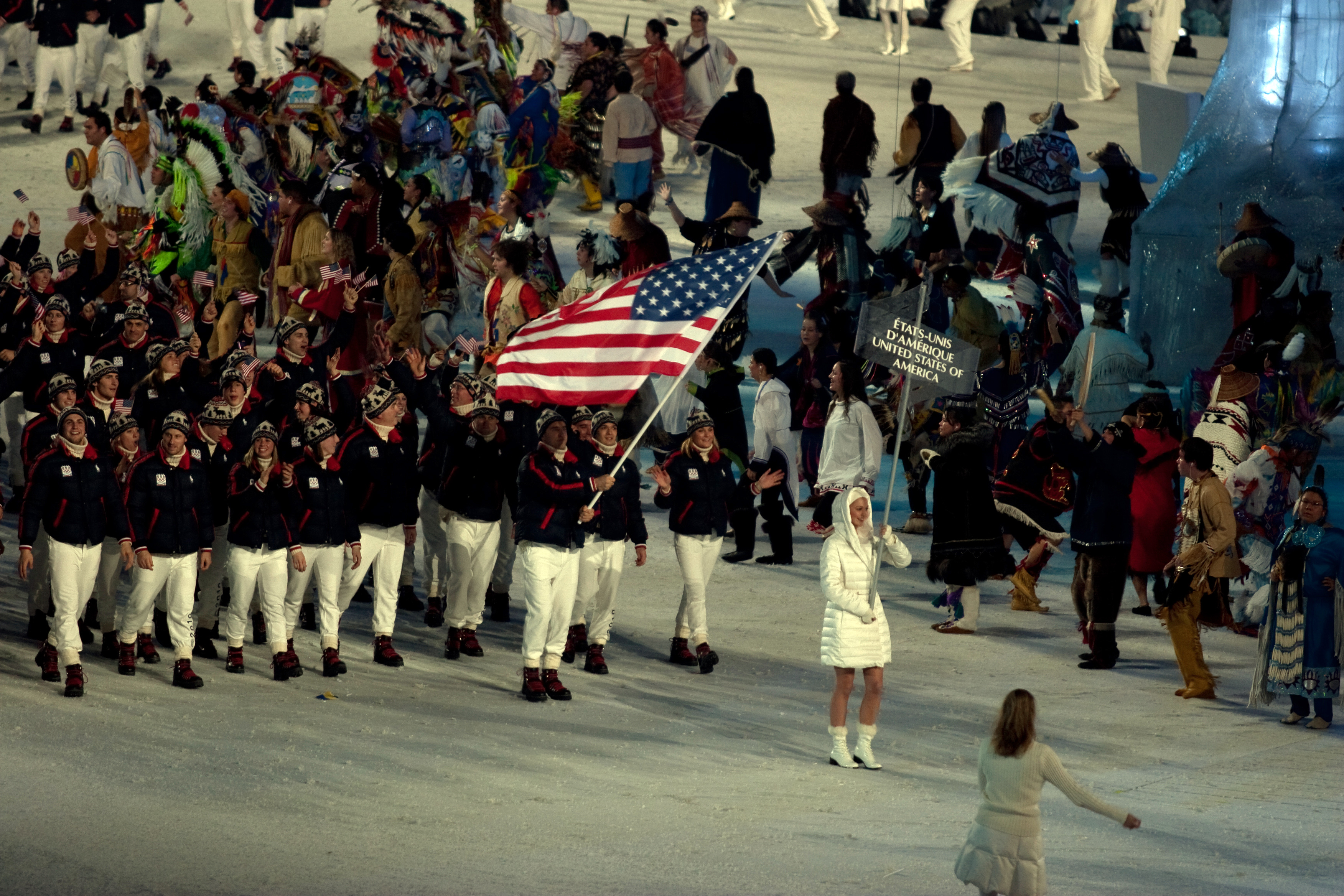 The athletes from the United States entering the stadium at the opening ceremonies of the 2010 Winter Olympics, with Mark Grimmette carrying the national flag.